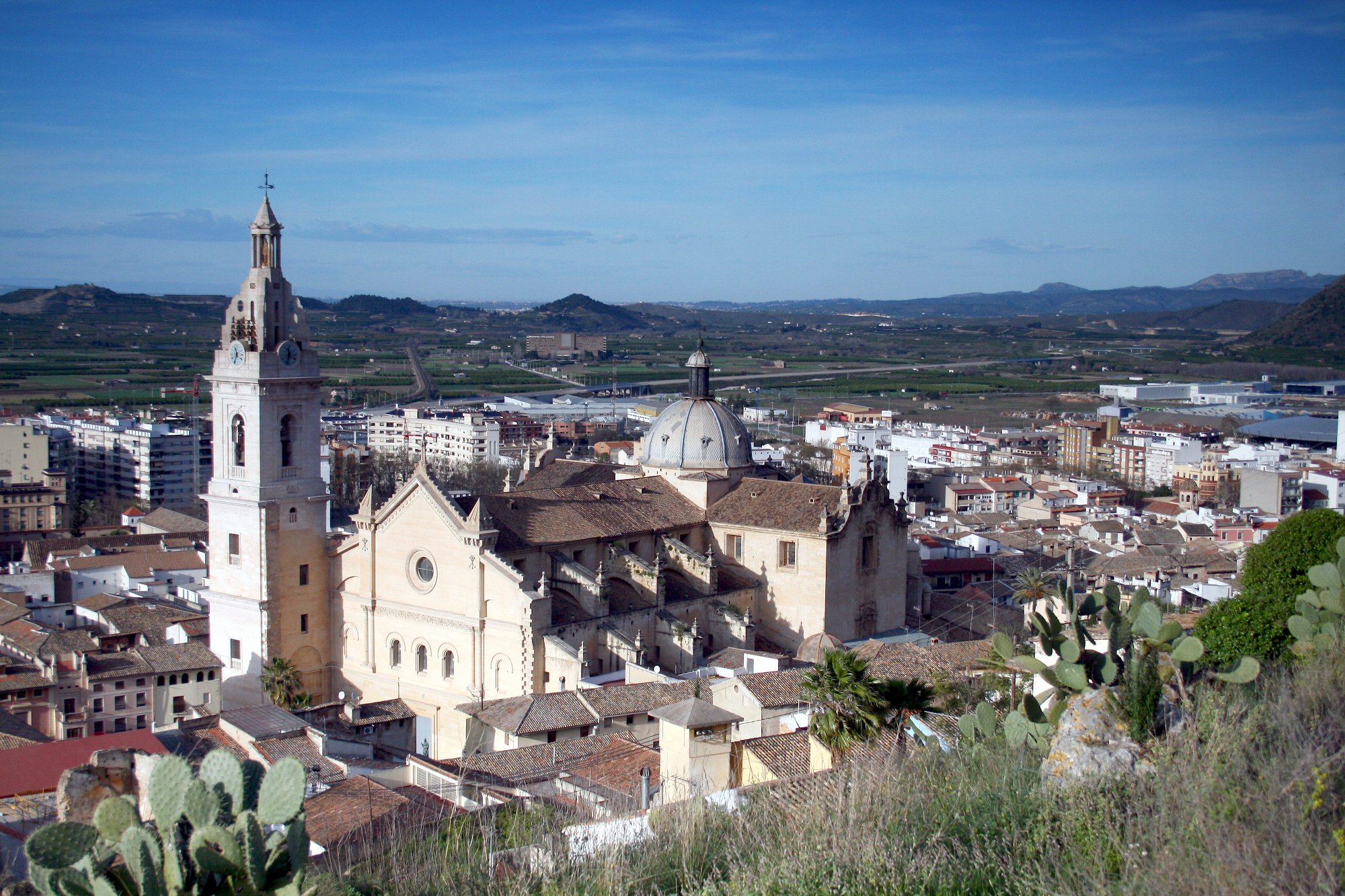 Cathedral of Xàtiva (La Seu)